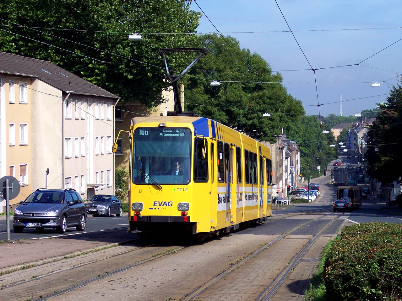 A DUEWAG M8C of Essener Verkehrs-AG of Essen, Germany (fleet number 1112) on route 106 at Hobeisenbrücke.